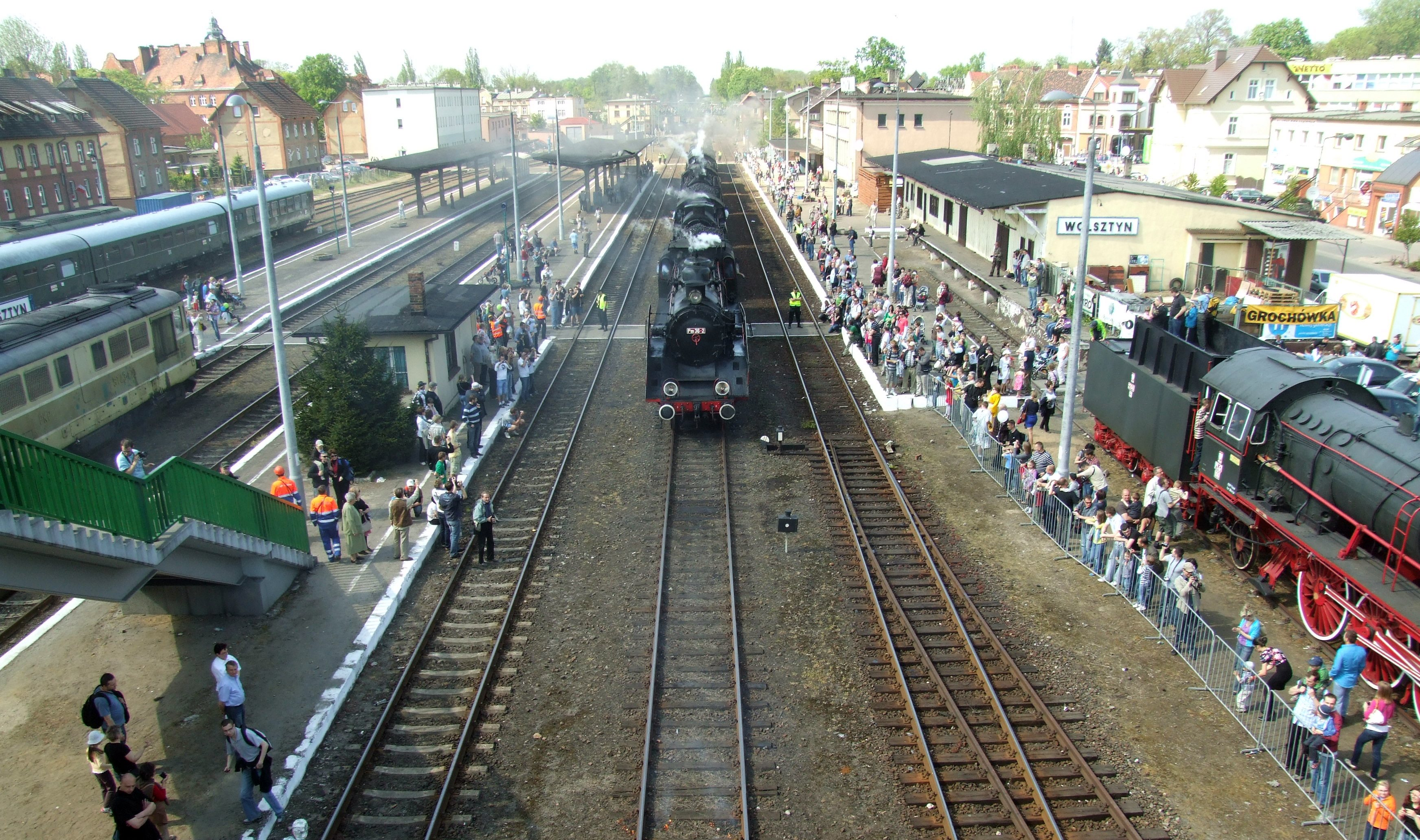 The railway station in Wolsztyn, Poland. The photo taken at Steam Engine festival